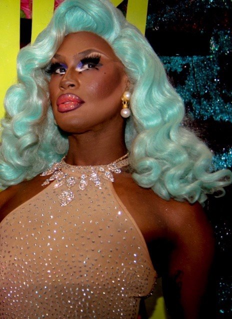 Shea Couleé at RuPauls Drag Con 2017